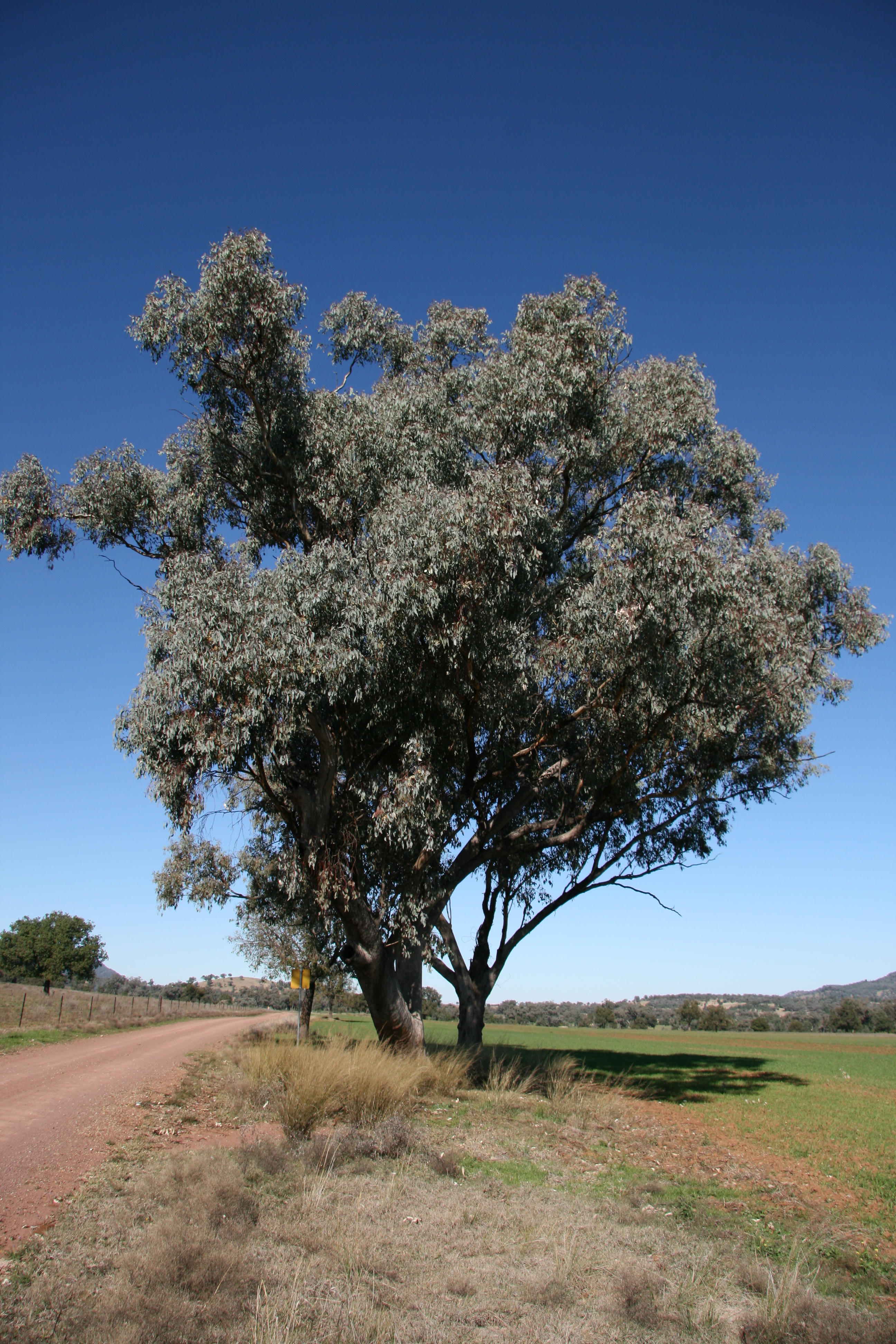 white box (Eucalyptus albens) - roadside of Babbinboon Rd sth of Somerton, NSW (habit)